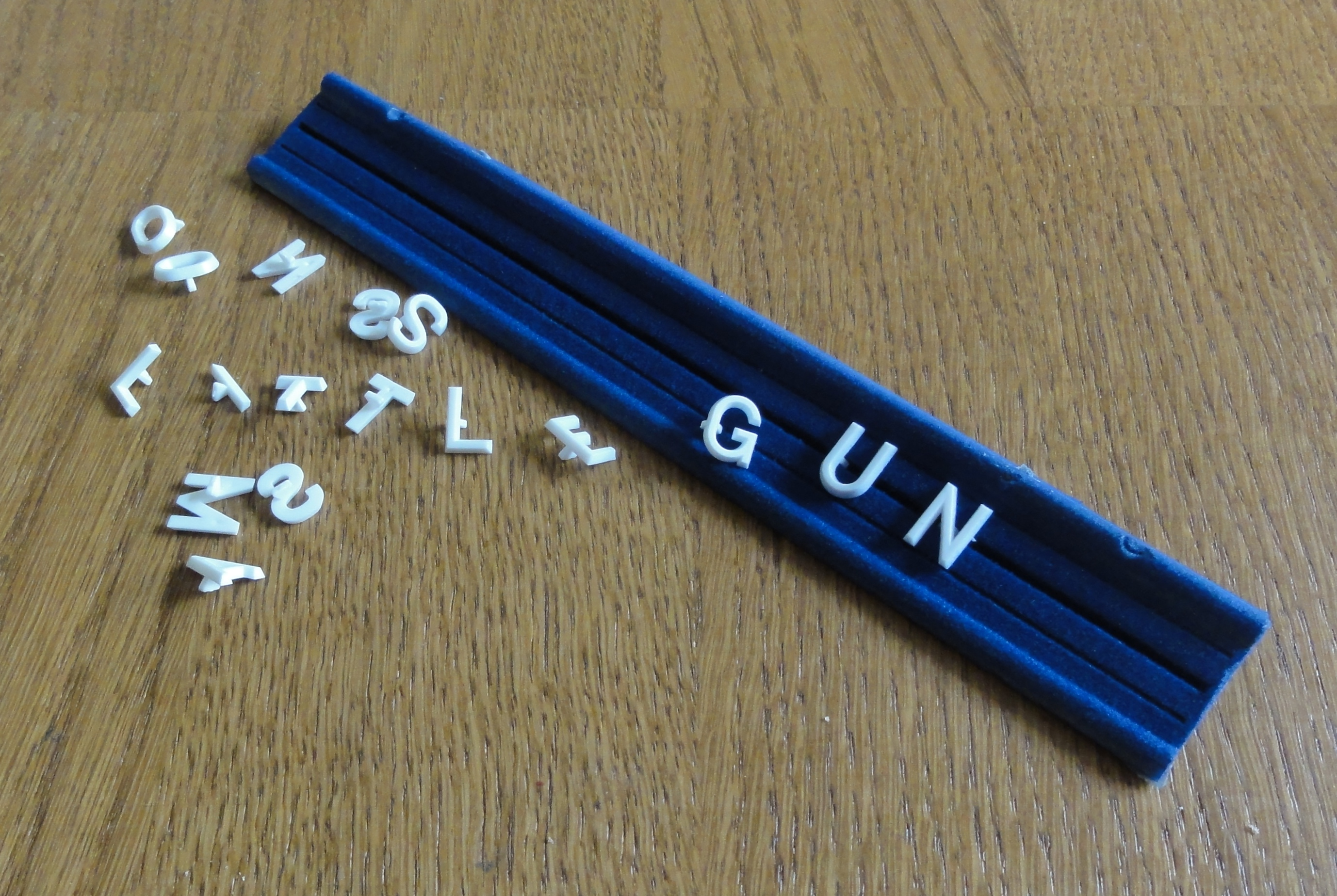 Aviso letters and holder for letter slot